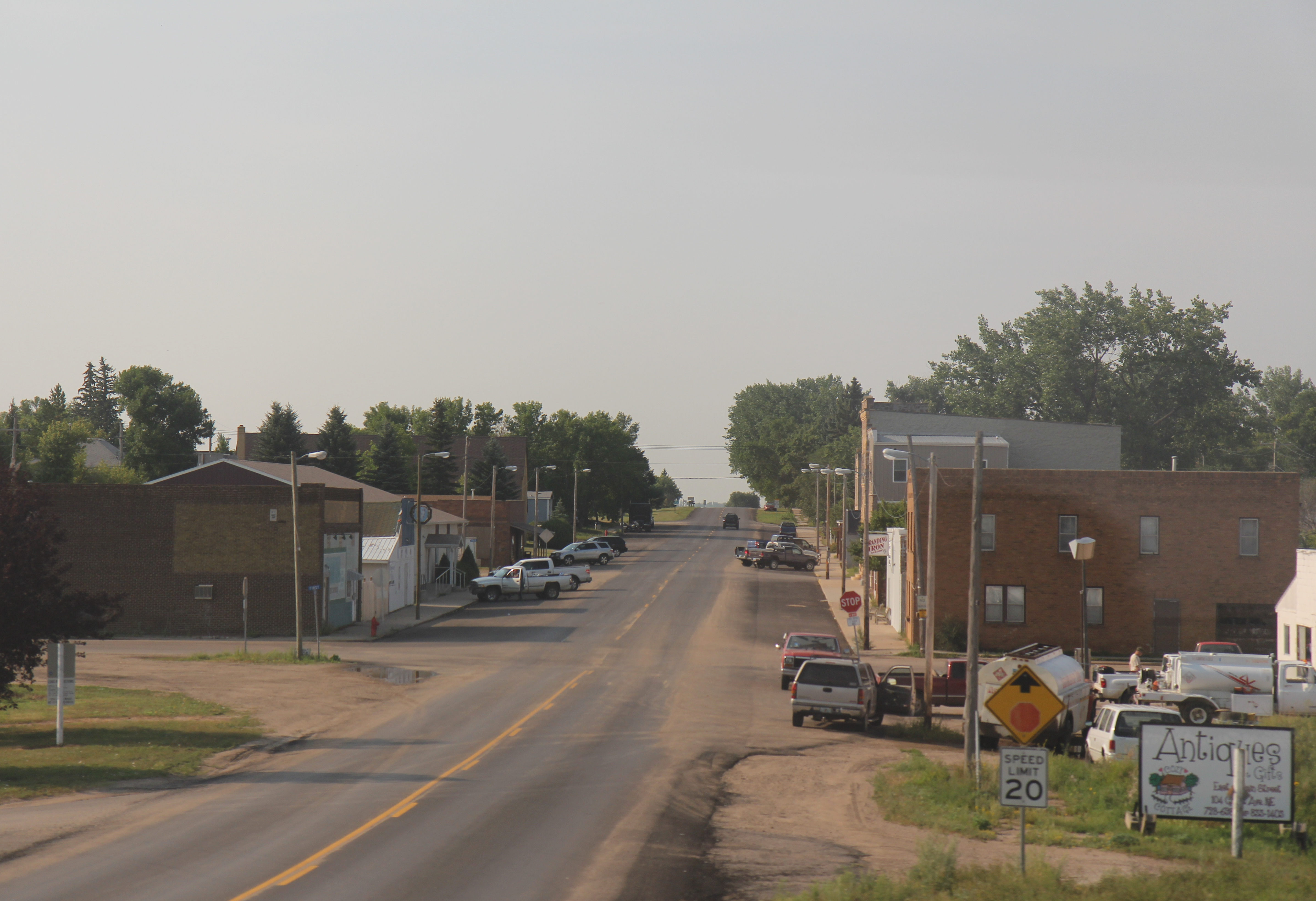 Downtown Granville, North Dakota.